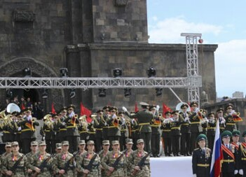 Оркестр Генштаба Армения в парад в честь День Победы